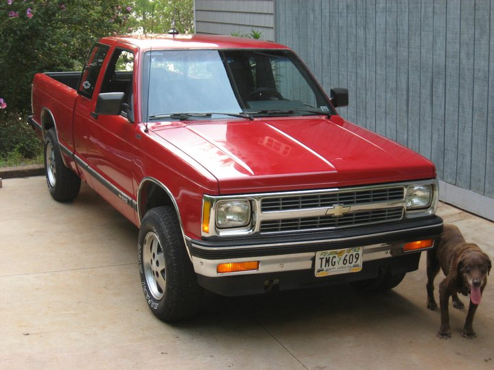 1991-1994 Chevrolet S-10 Tahoe 4x4